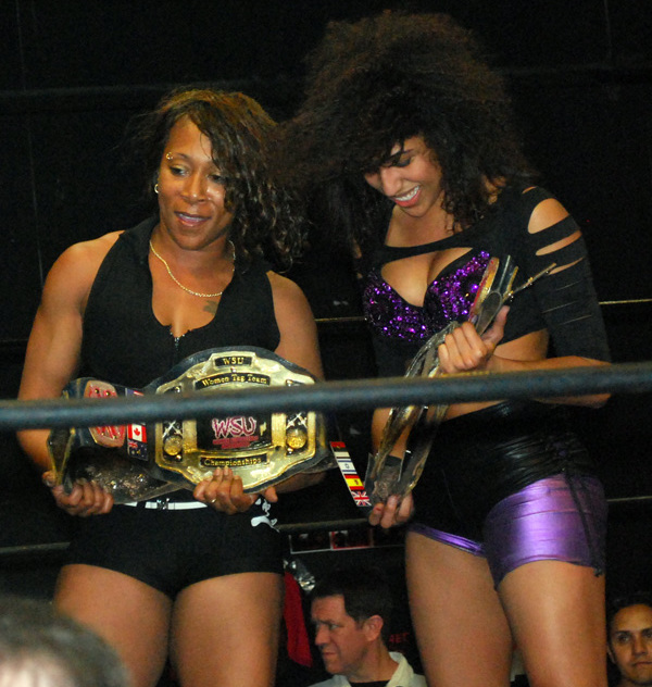 Professional wrestlers Jazz and Marti Belle celebrate their WSU Tag Team Championship victory at a Women Superstars Uncensored show on March 10, 2011.